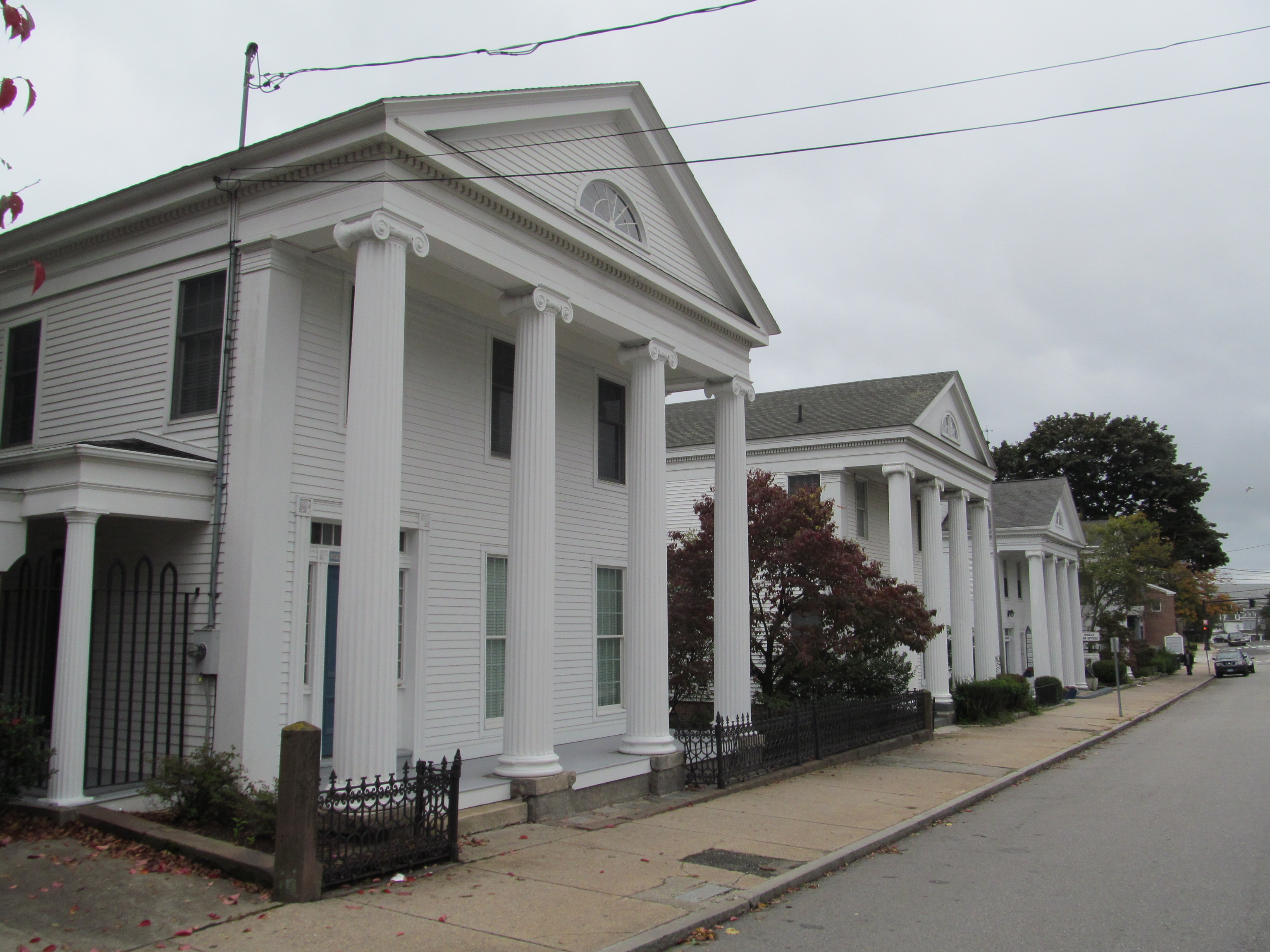 Whale Oil Row, New London Connecticut